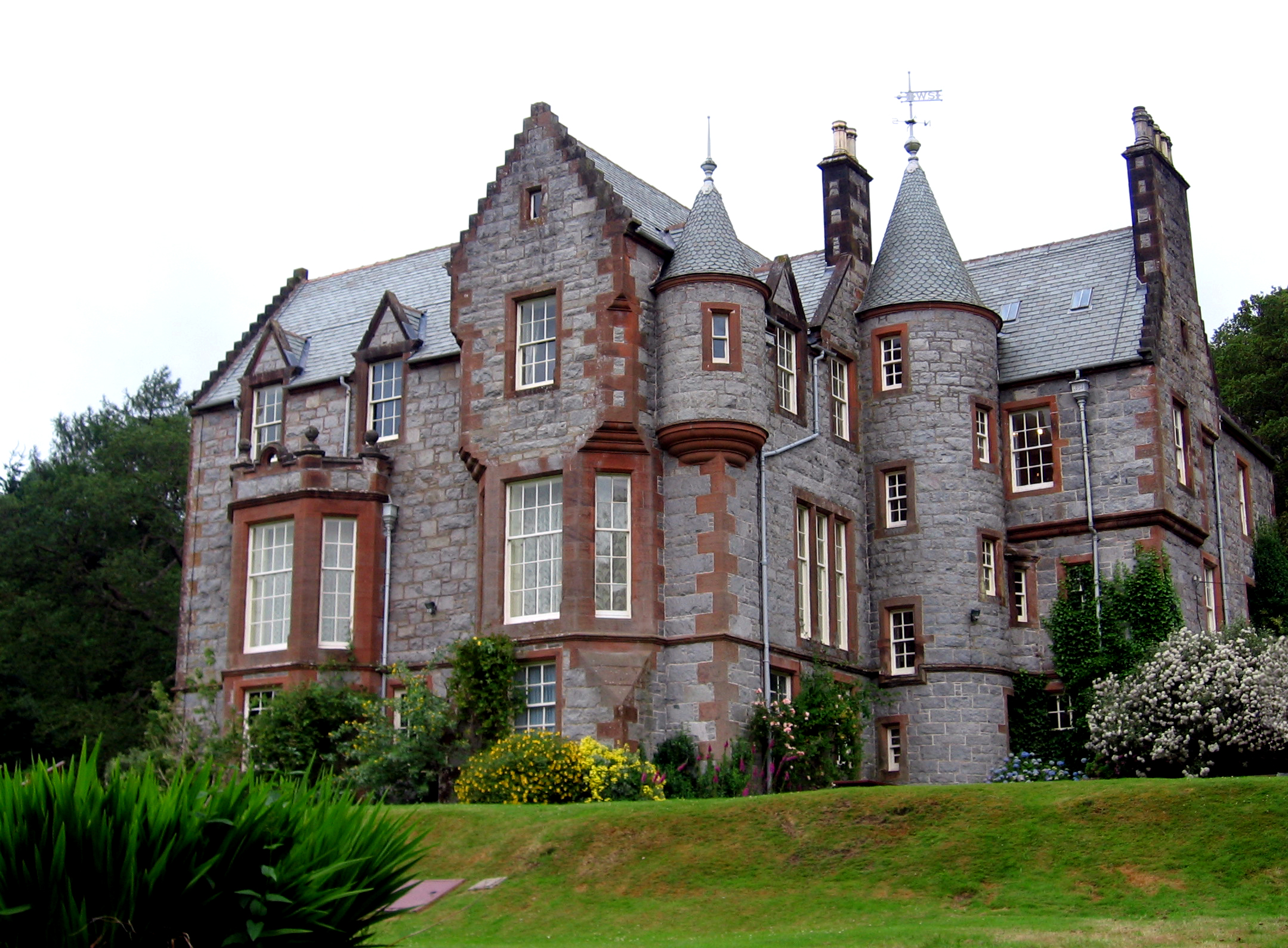 The National Museum of Costume is located at Shambellie House in Scotland, UK. Image taken by Jenni Sophia Fuchs July 2005